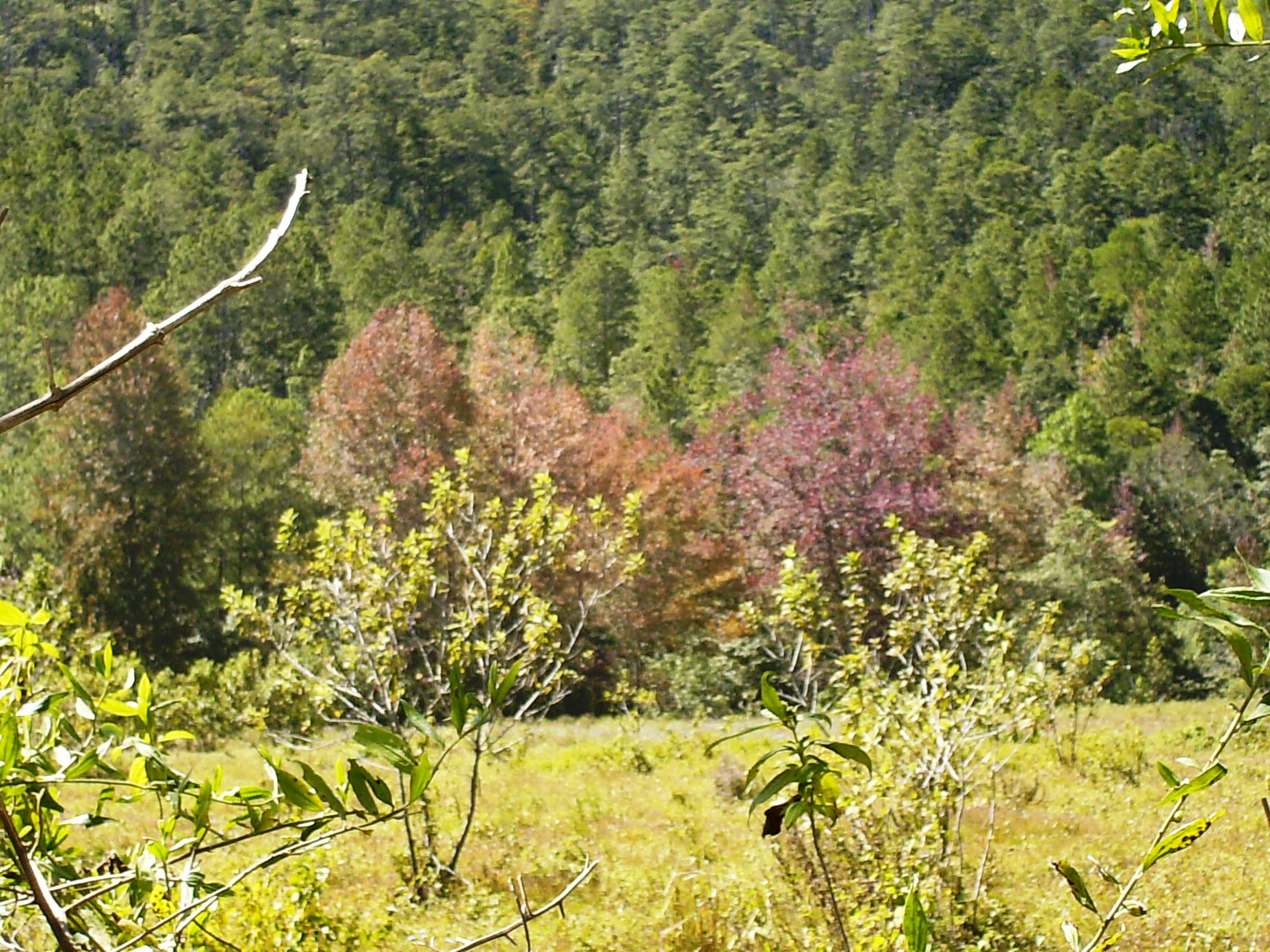 San Andrés, municipality in the Honduran department of Lempira.